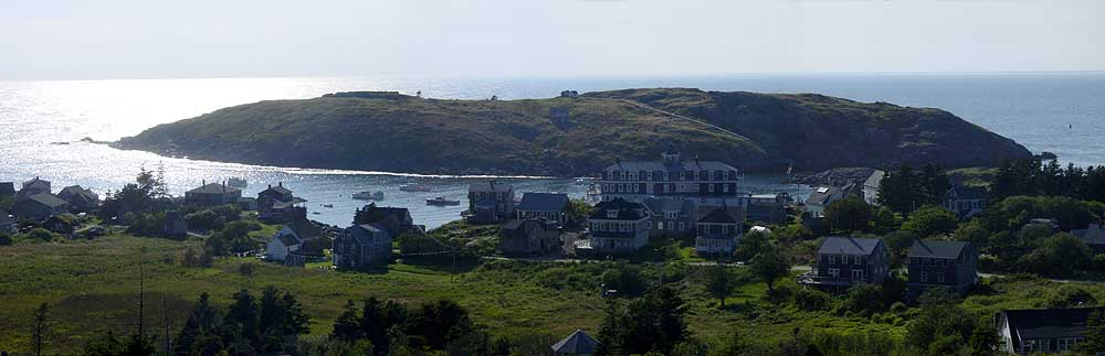 The town of Monhegan on Monhegan Island, Maine.